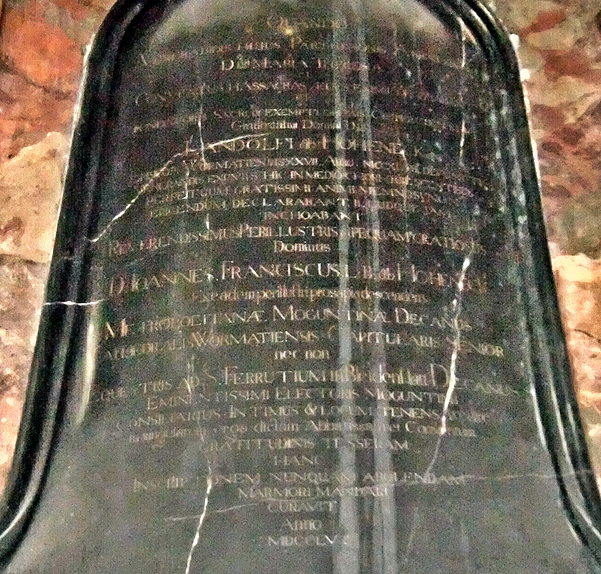 Rokoko-Epitaph (Inschrift) Bischof Landolf von Hoheneck (+ 1247), früher Kloster Maria Münster Worms, jetzt Wormser Dom, nördliches Querschiff